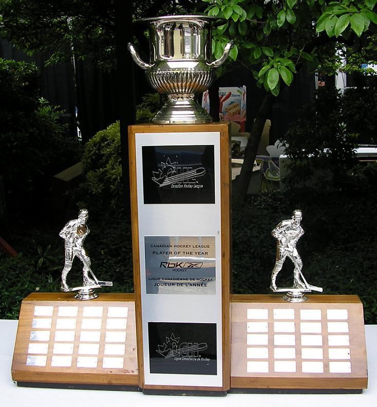 Photo I took of the CHL Player of the Year Award at the 2007 Memorial Cup in Vancouver.